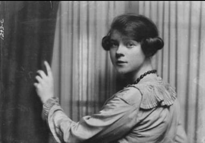 Arnold Genthe (1869-1942)/LOC agc.7a14725. Eva Le Gallienne, not before 1916